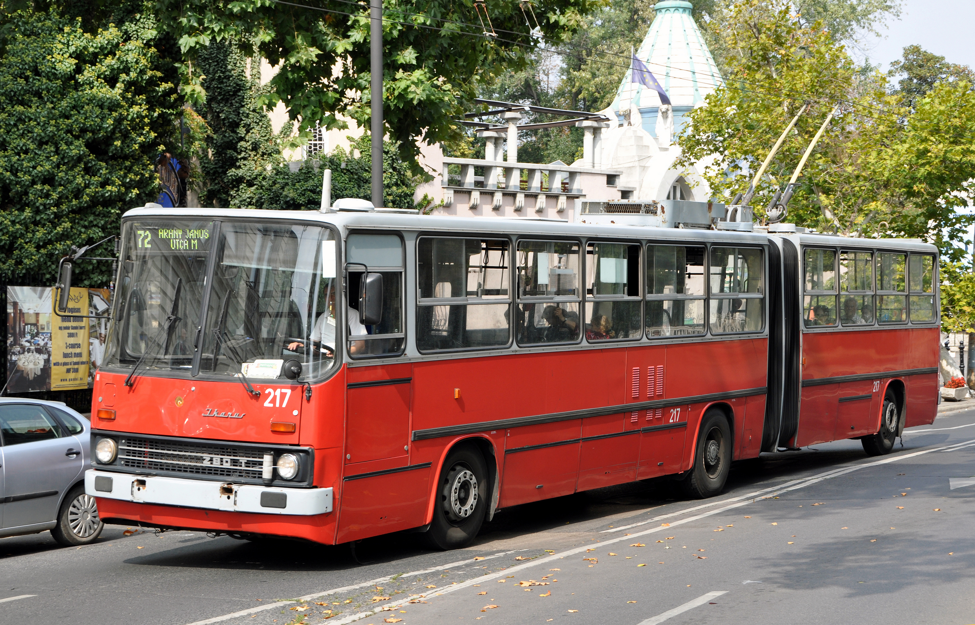 Ikarus 280T articulated trolleybus in Budapest (Hungary)